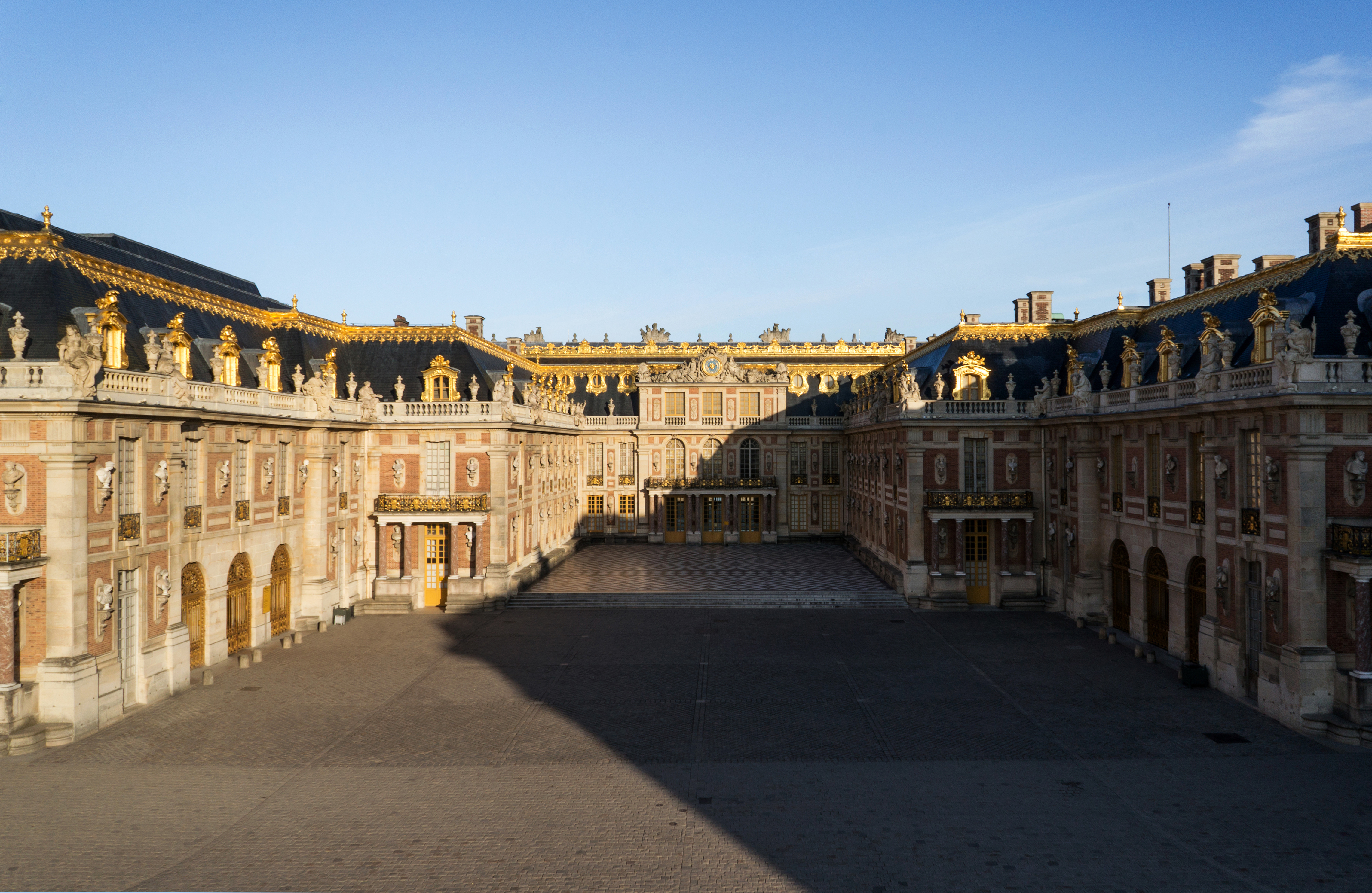 Aerial view of the Palace of Versailles, France